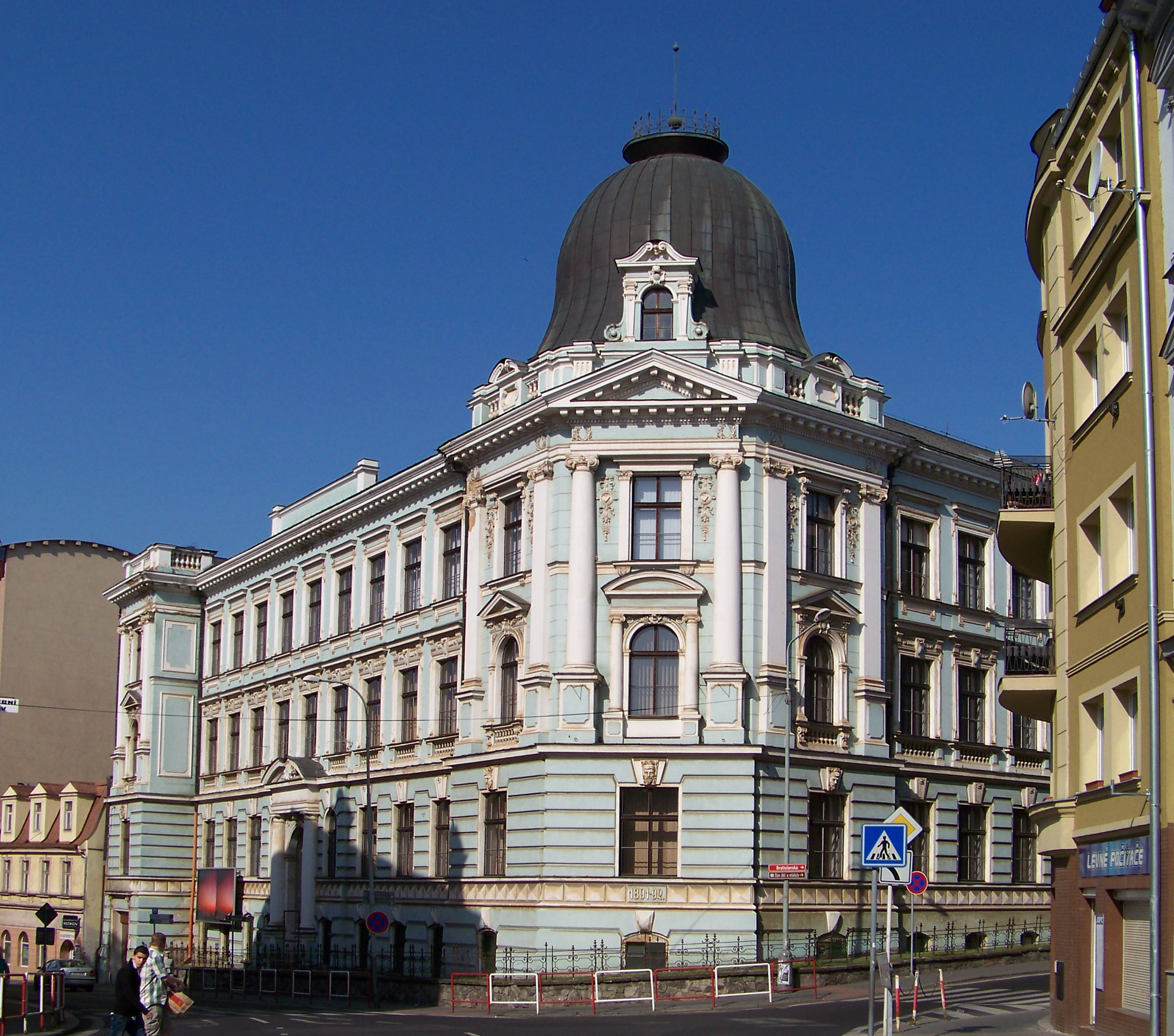 Ústí nad Labem-centrum, Ústí nad Labem District, Ústí nad Labem Region, the Czech Republic. Velká hradební 423/14, a school.